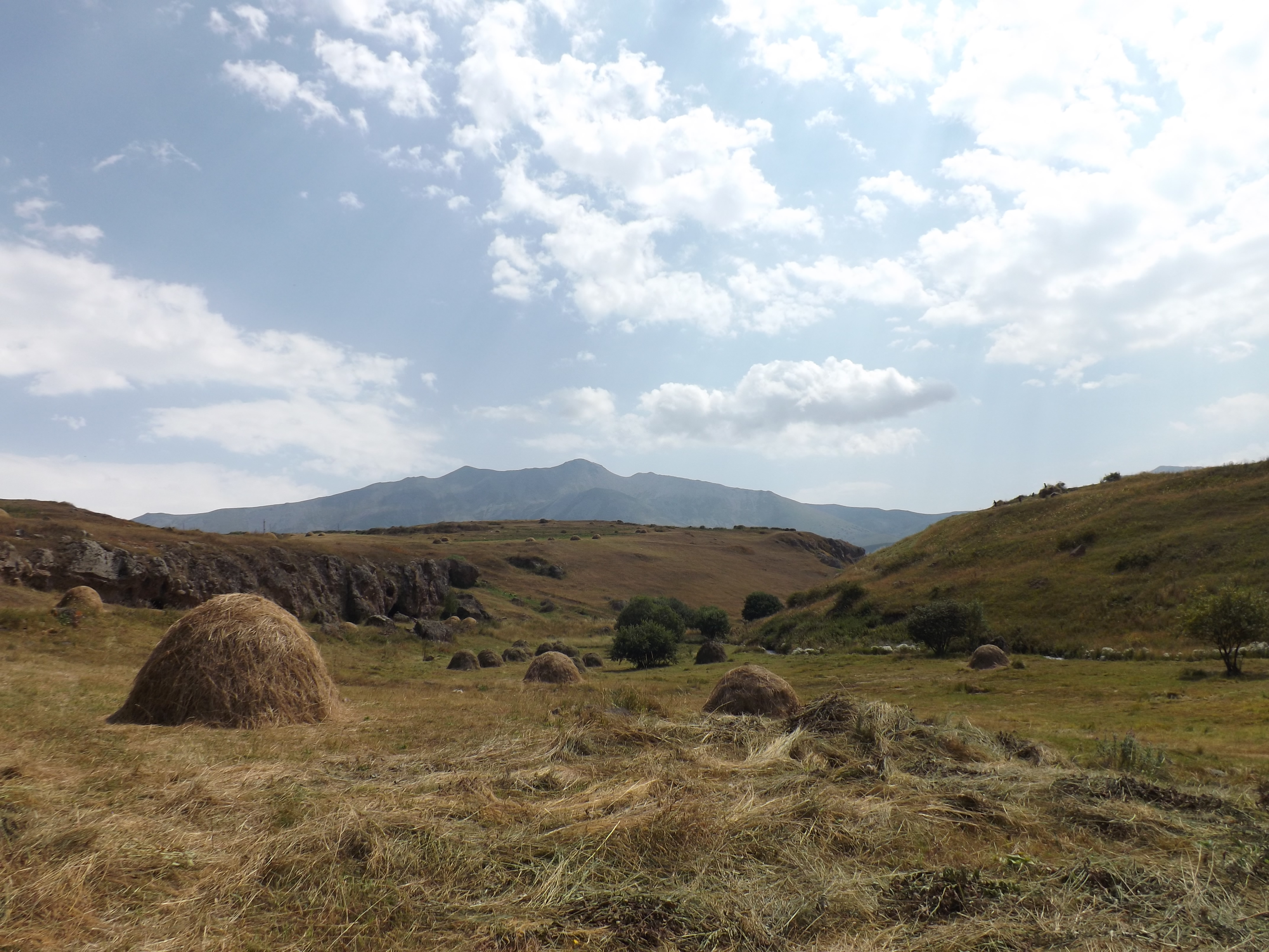 view from Samsari Monastery